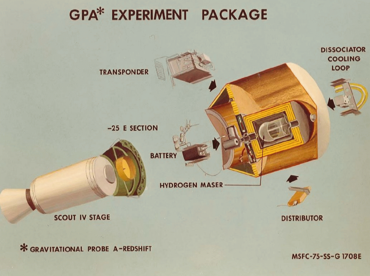 Setup of Gravity prove A experiment